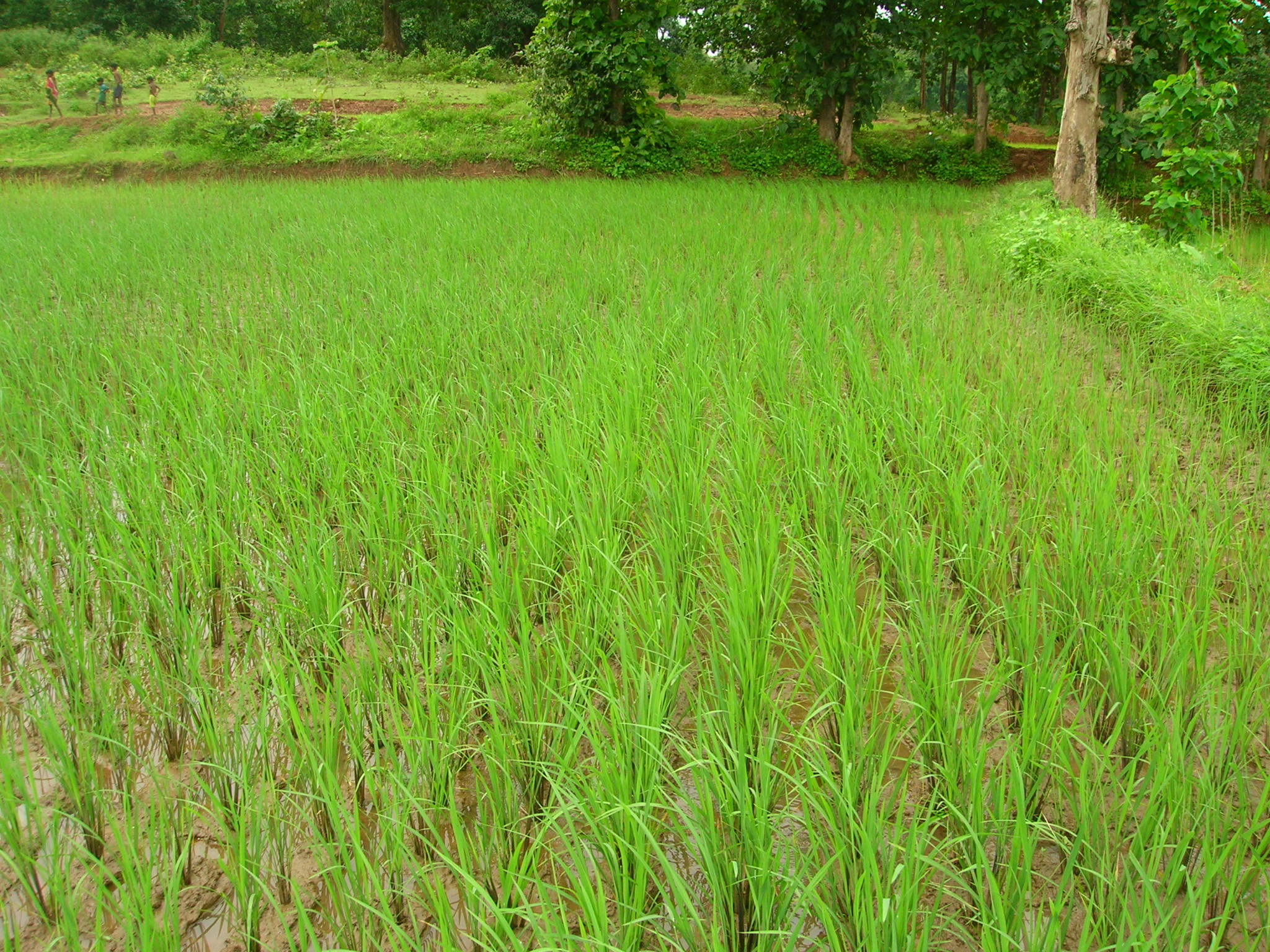 SRI farming in Chattisgarh India photos by Jacob